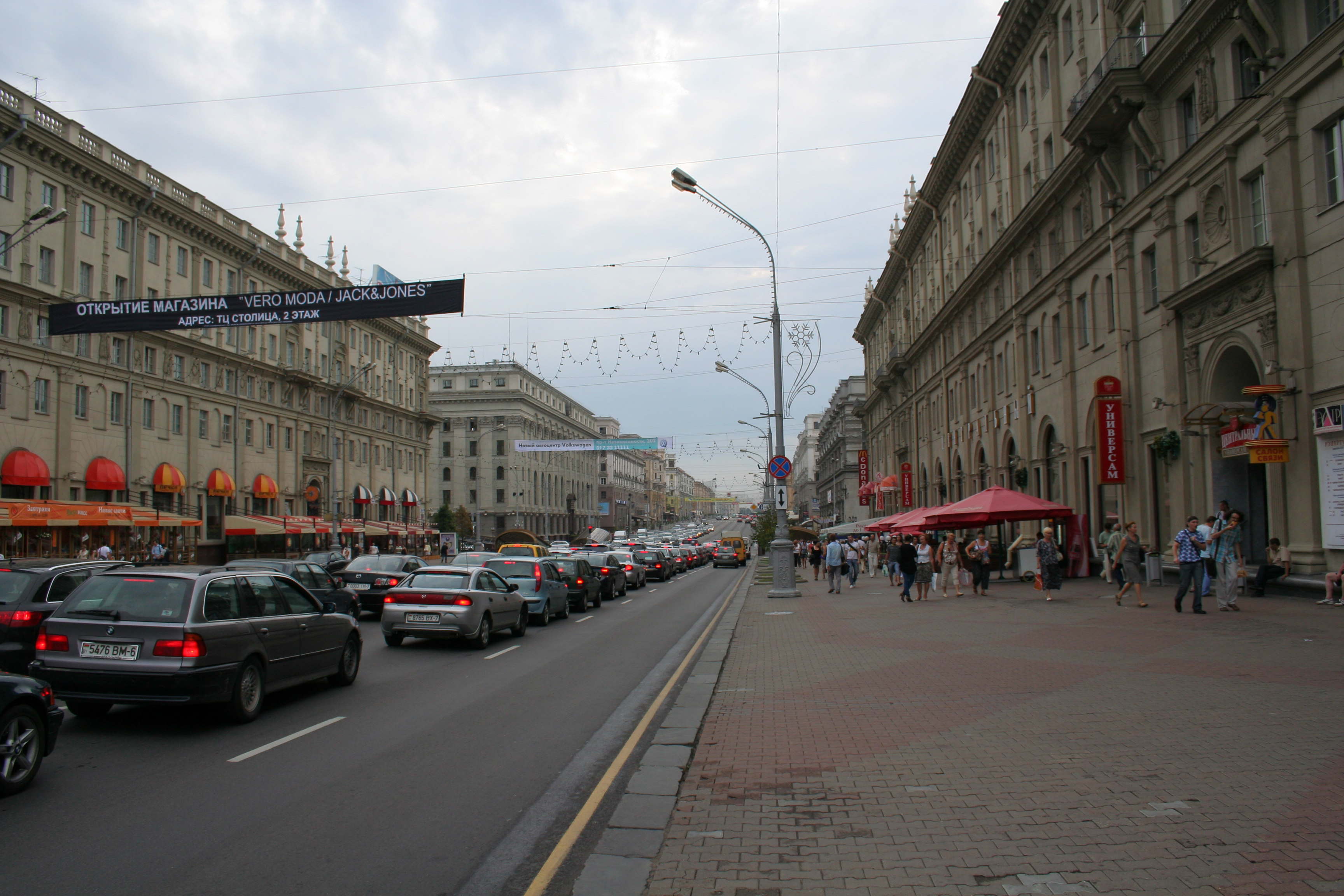 Views of Minsk (Belarus). Independence avenue.